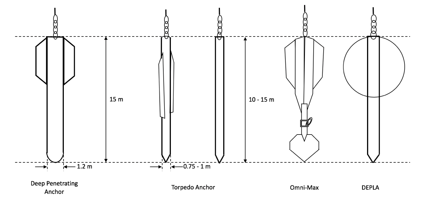 A variety of offshore dynamically installed anchors